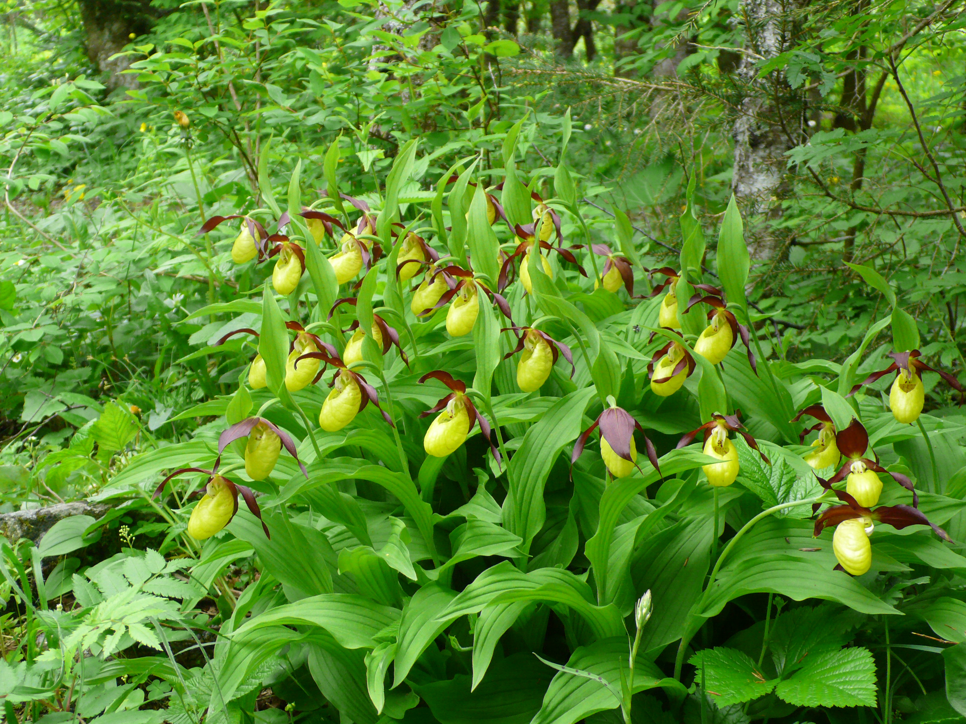 Cypripedium_calceolus in Les_Contamines-Montjoie